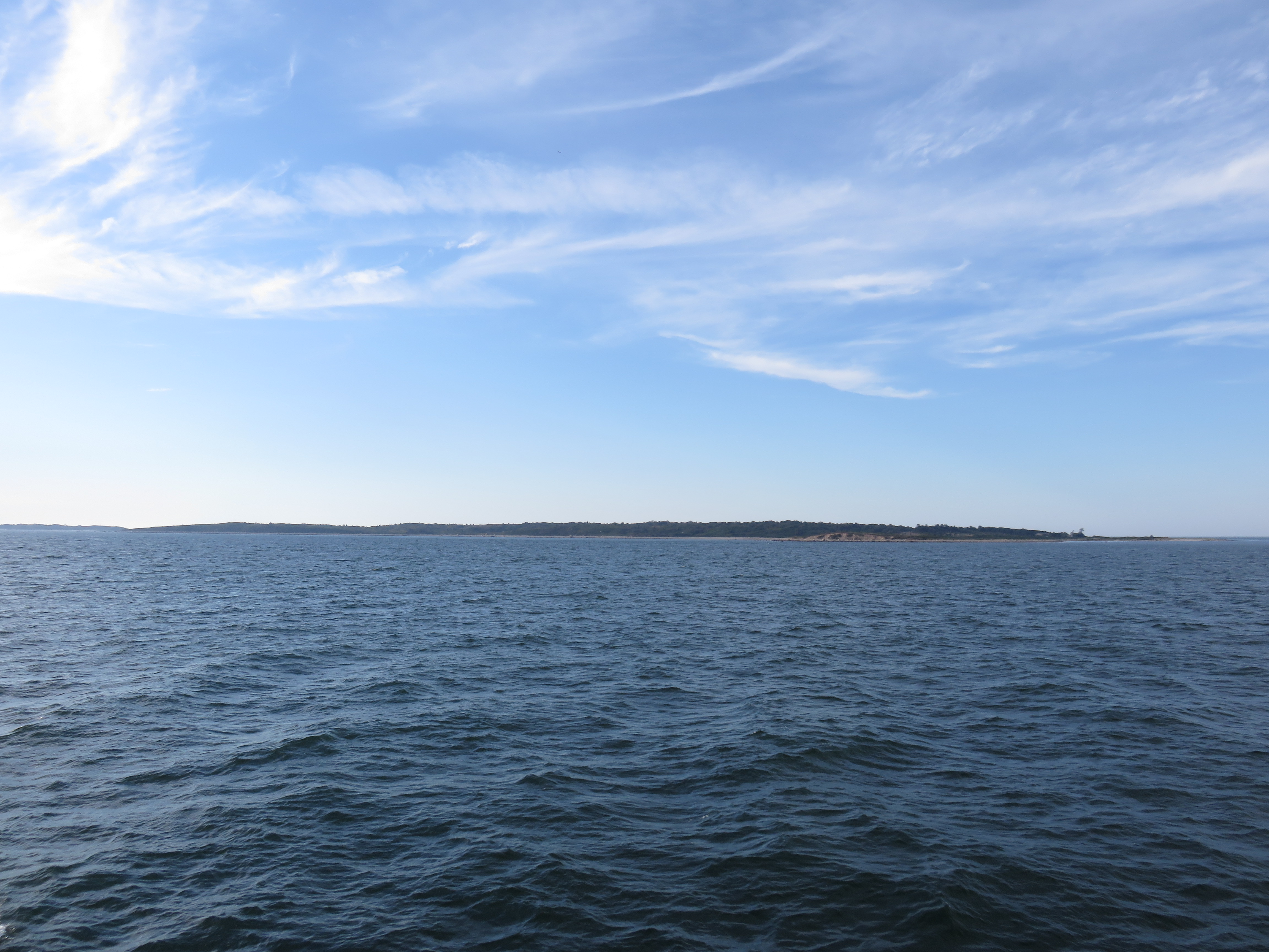 Pasque Island in Gosnold, Massachusetts in 2015